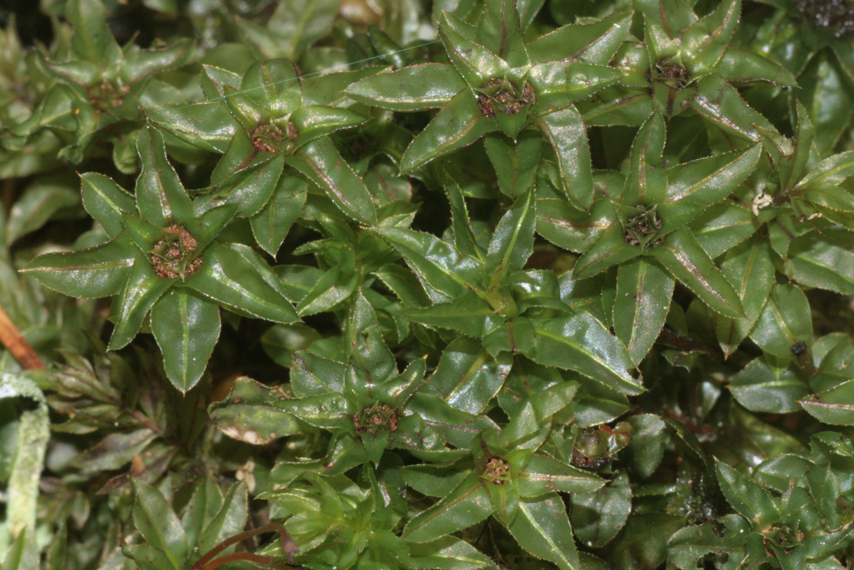 Mnium spinosum